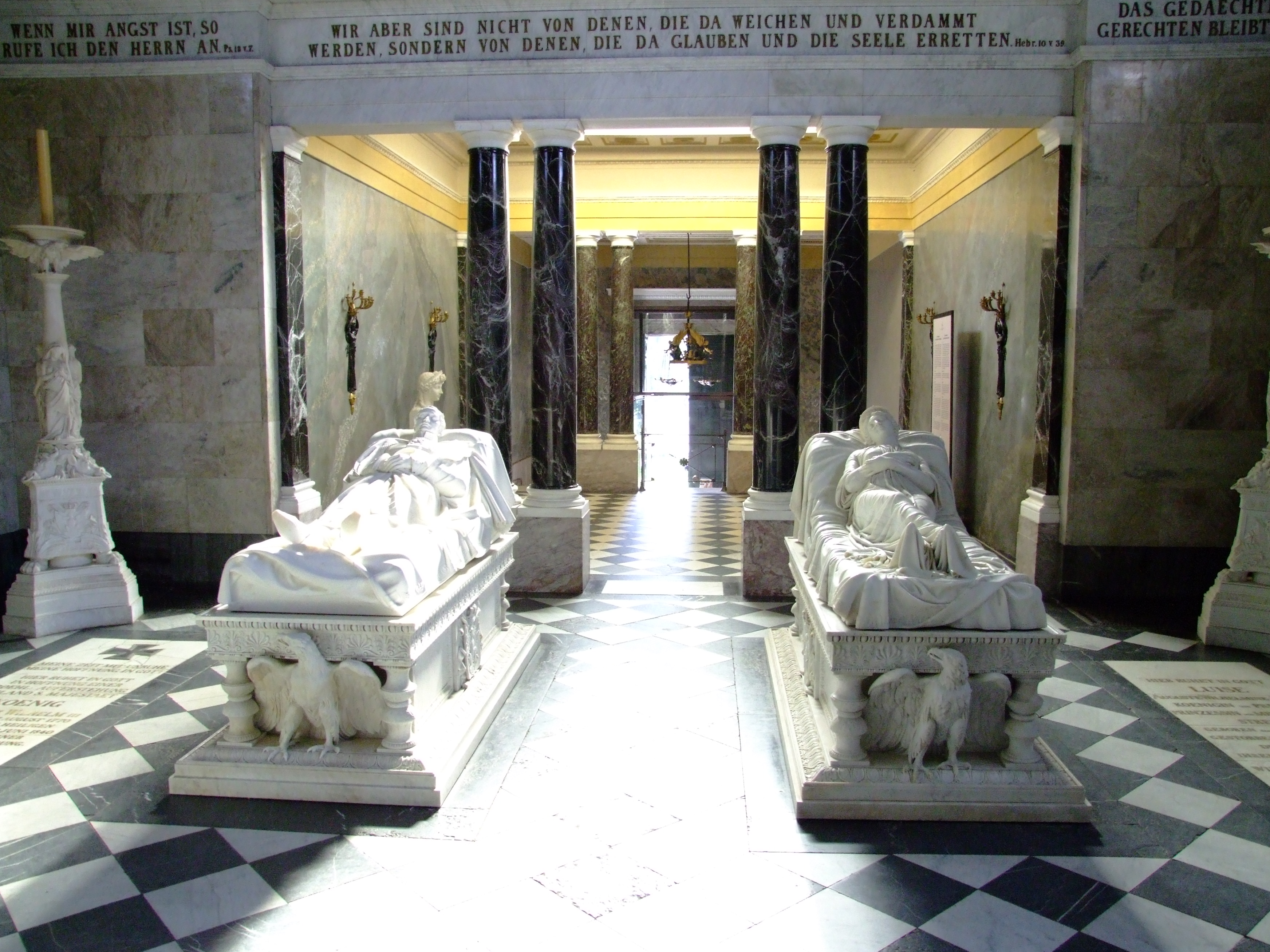 Mausoleum of king Friedrich Wilhelm III and his wife Louise in Charlottenburg palace-park